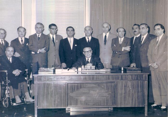 This is a picture from my own personal files